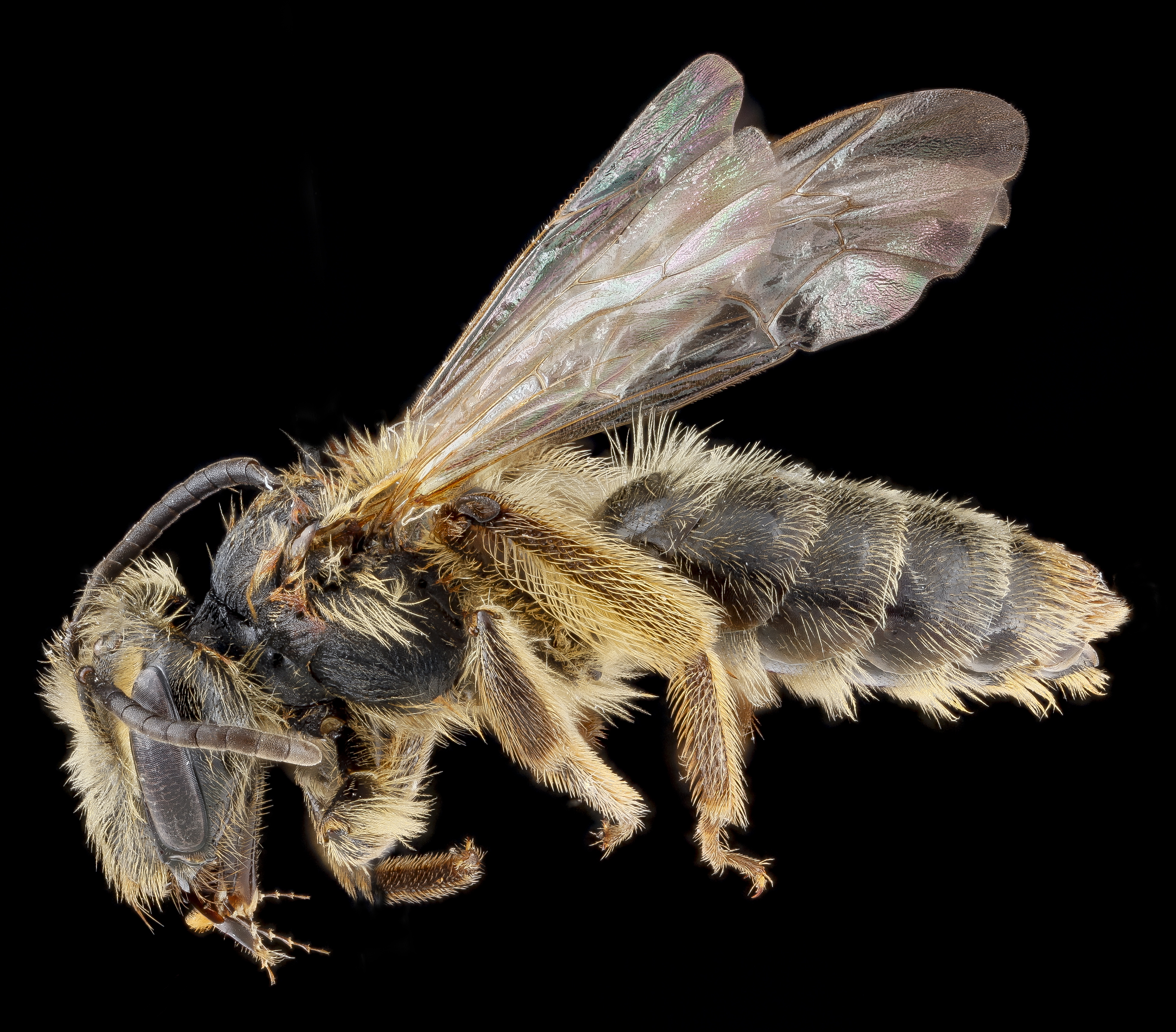 Hardy County, West Virginia